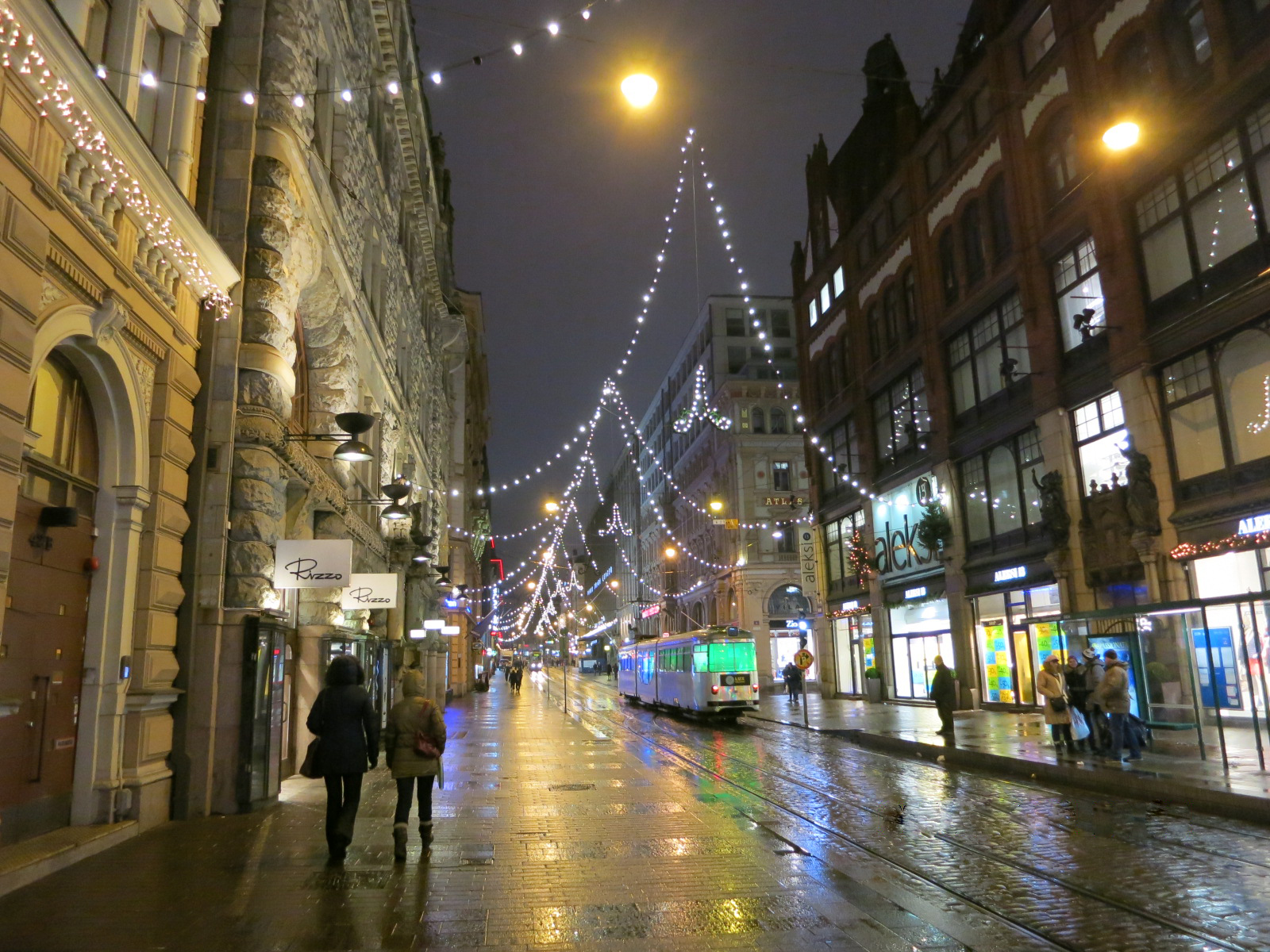 Aleksanterinkatu (Aleksander’s Street) in Helsinki